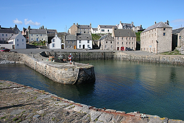 Portsoy Old Harbour The morning sunshine picks out the detail of the 18th century buildings.